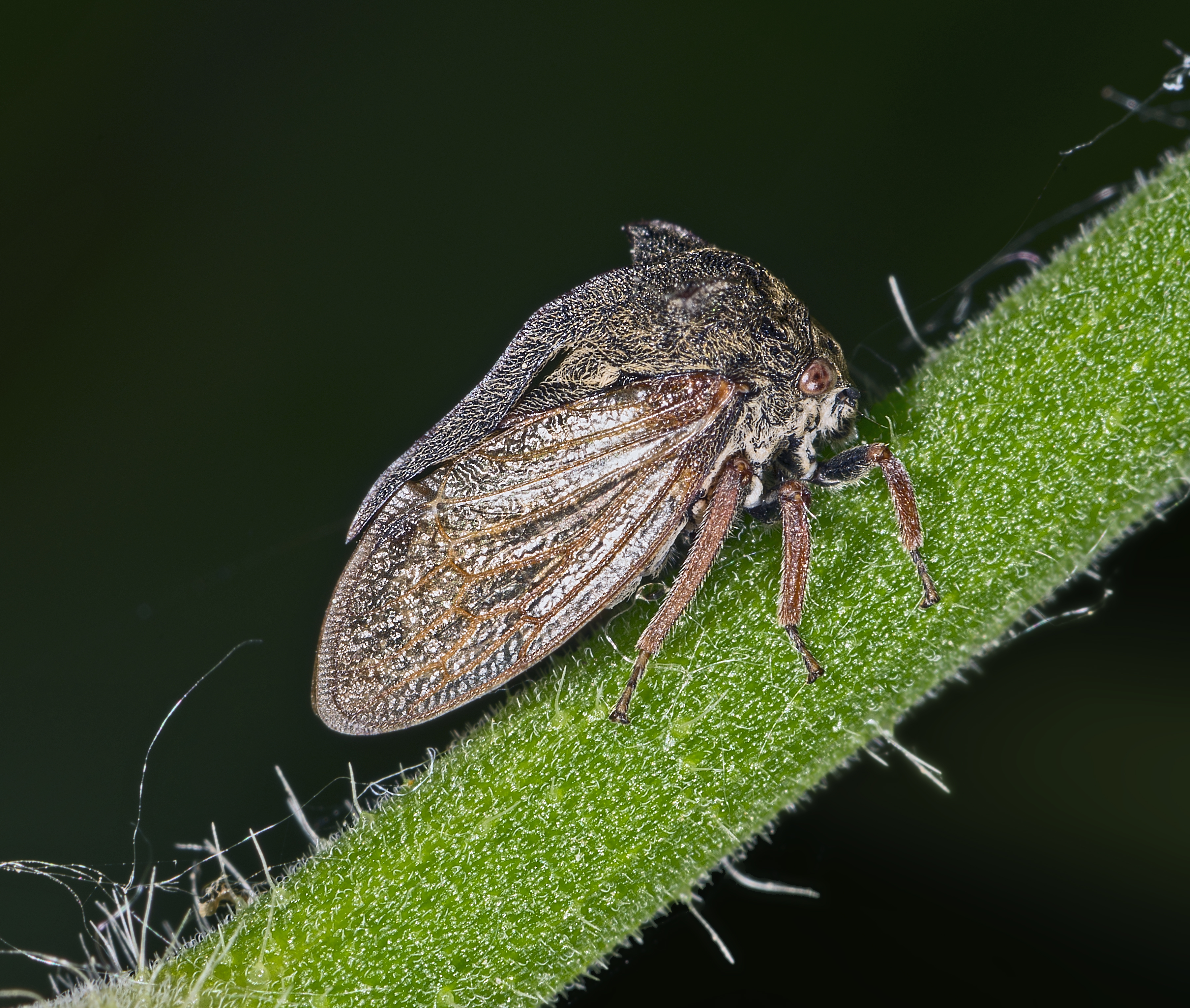 Centrotus cornutus, side view.